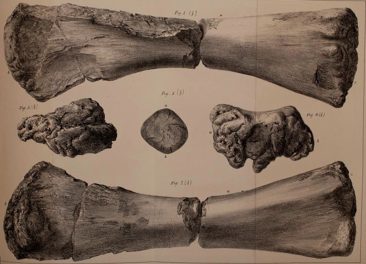 Humerus of Ischyrosaurus manseli in (top) posterior, (middle, left to right) proximal, cross sectional, distal and (bottom) anterior views.